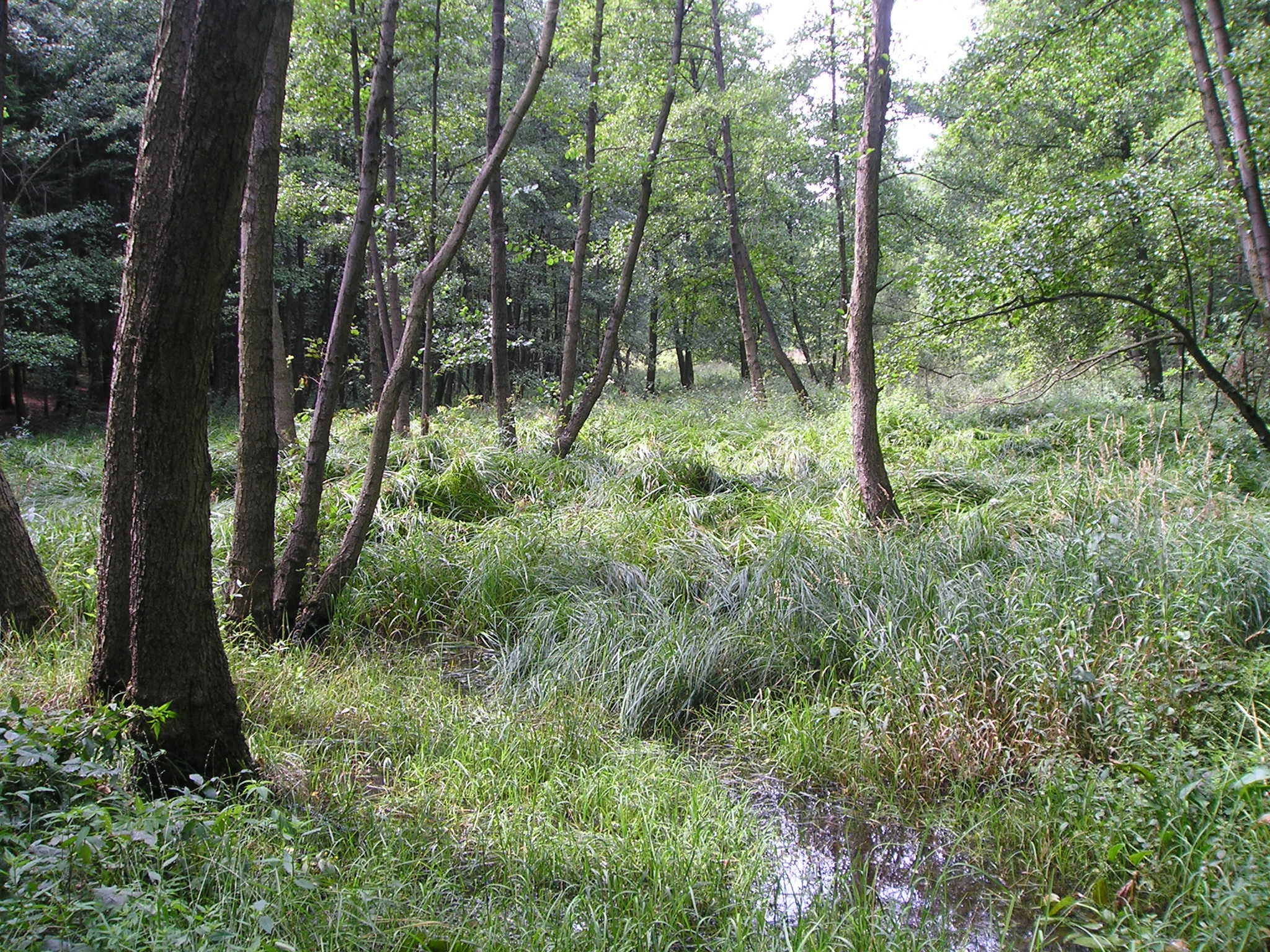 Nature reserve Petrovka at Bolevec (Plzeň)